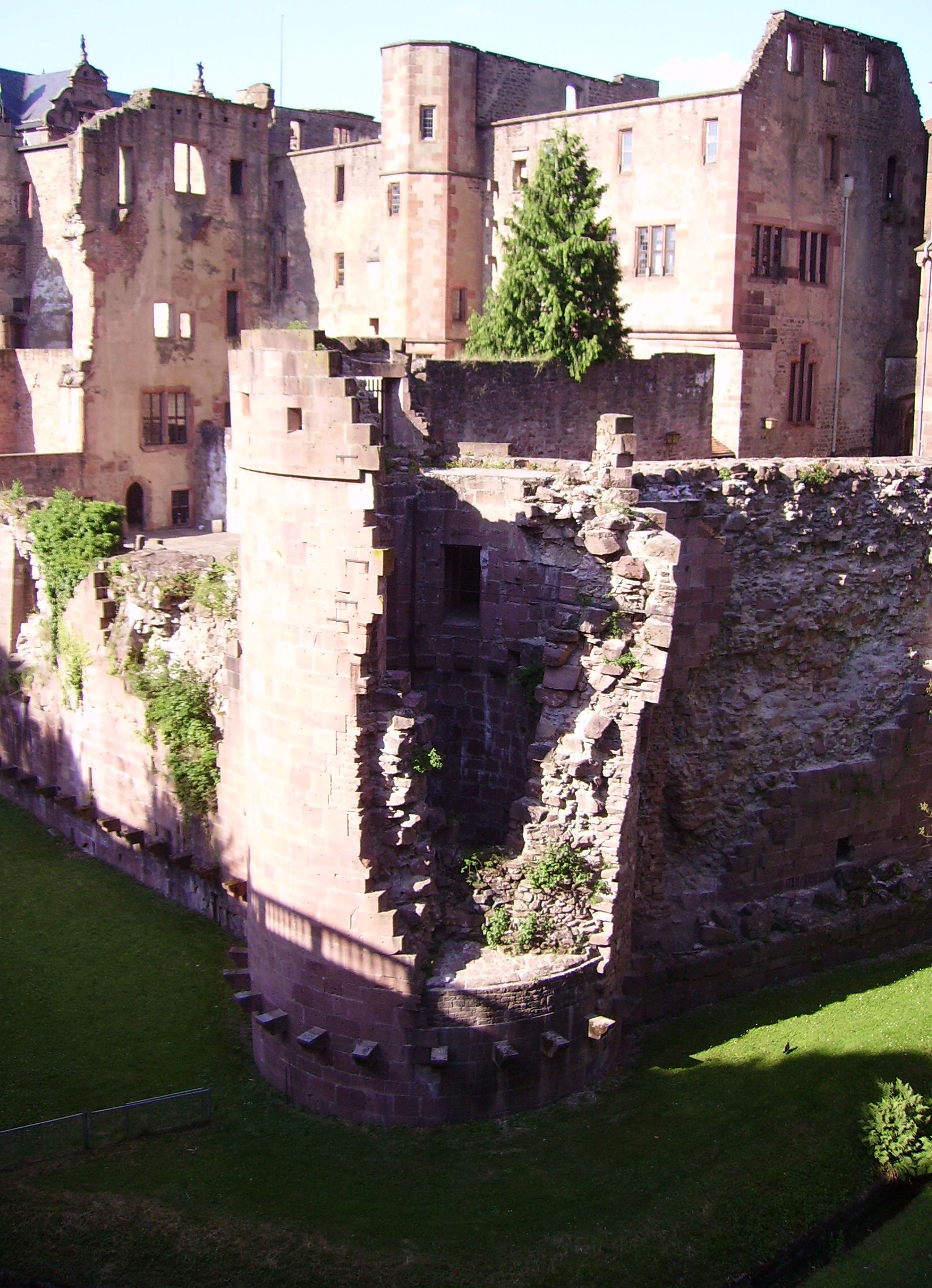 part of Heidelberg castle (Heidelberger Schloss)